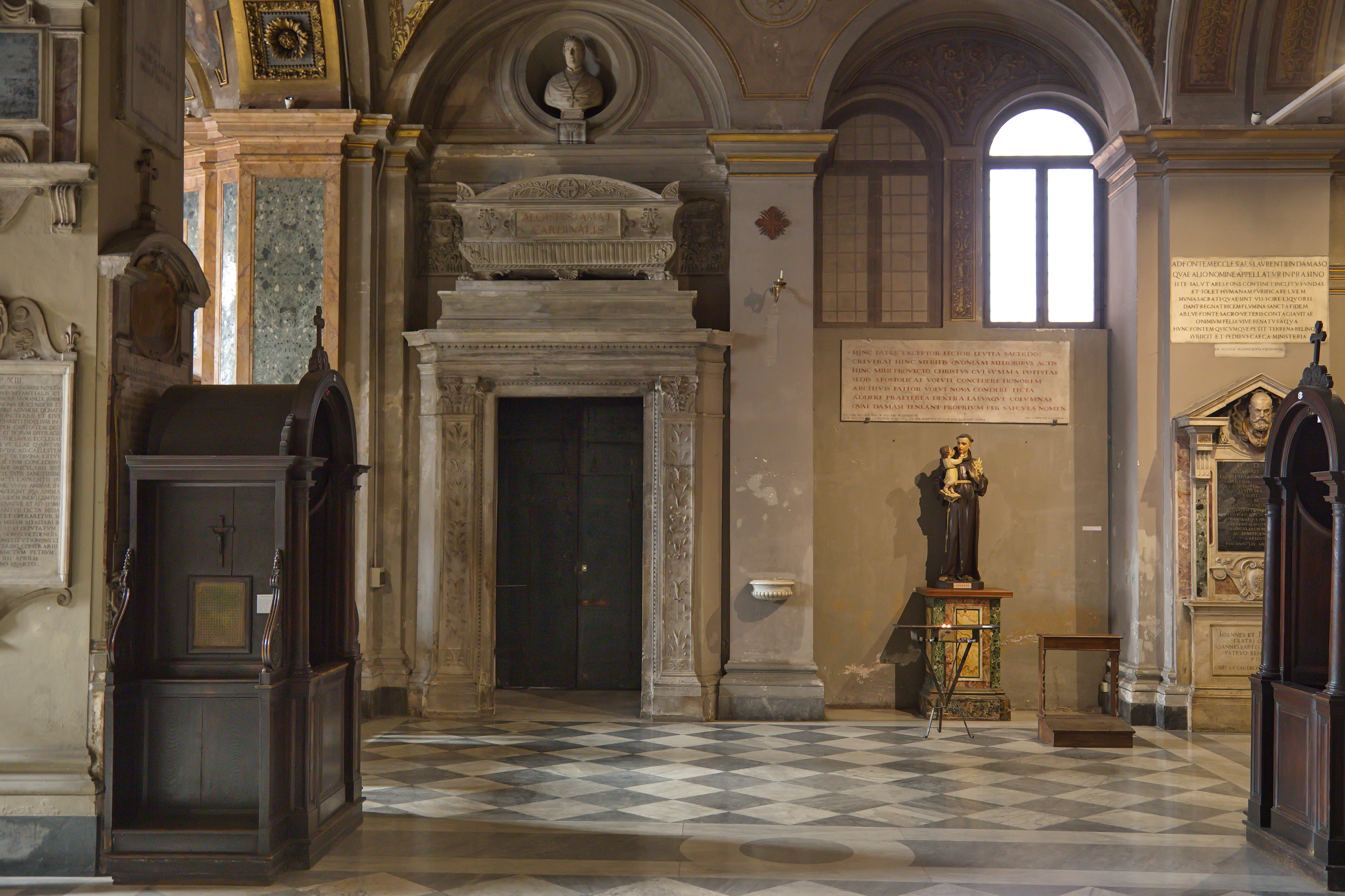 San Lorenzo in Damazo, exit to Bramate's cortile